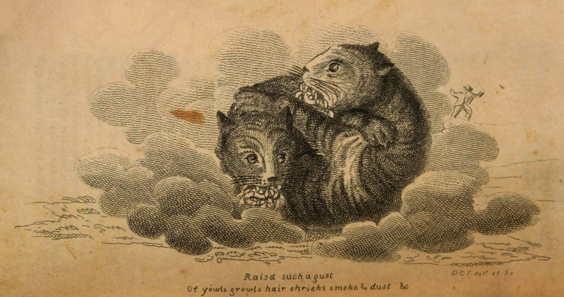 Illustration of the Kilkenny cats in the middle of their fight, by David Claypoole Johnston from between pages 132 and 133 of The cat-fight; a mock heroic poem (1824) by Alexander Mack. Caption is a quote from page 127. Caption Raisd such a gust Of yowls growls hair shrieks smoke & dust &c.